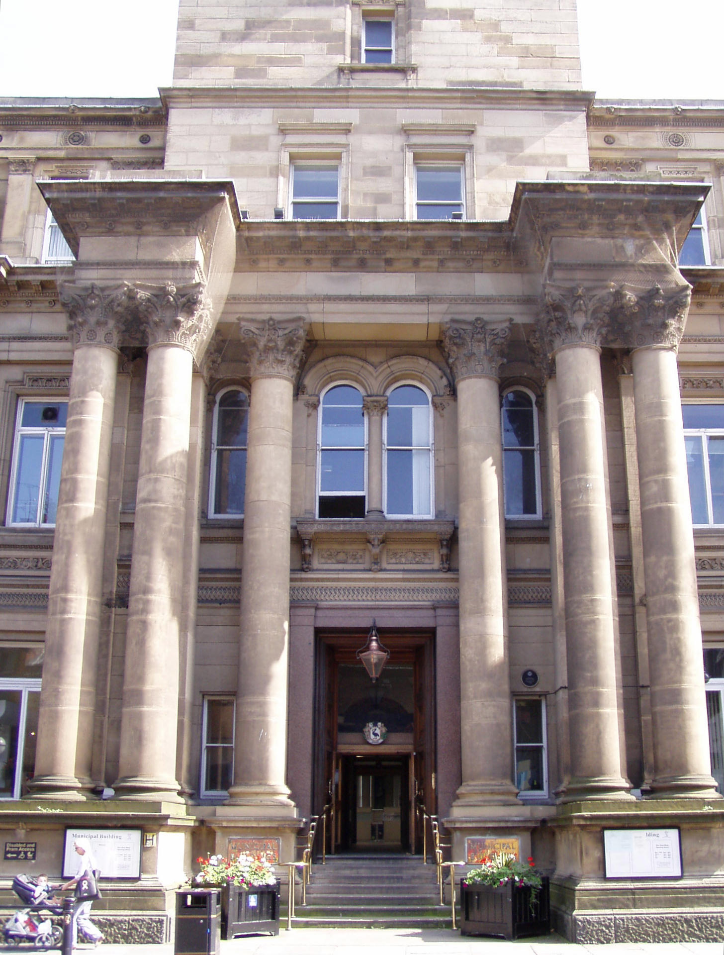 Eneterance to Municiple buildings in Liverpool